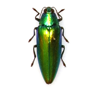 GLAM - Chrysochroa weyersii Cut-out from original (Boite Buprestidae Asie sud est GLAM muséum Lille 2016.JPG) shown below